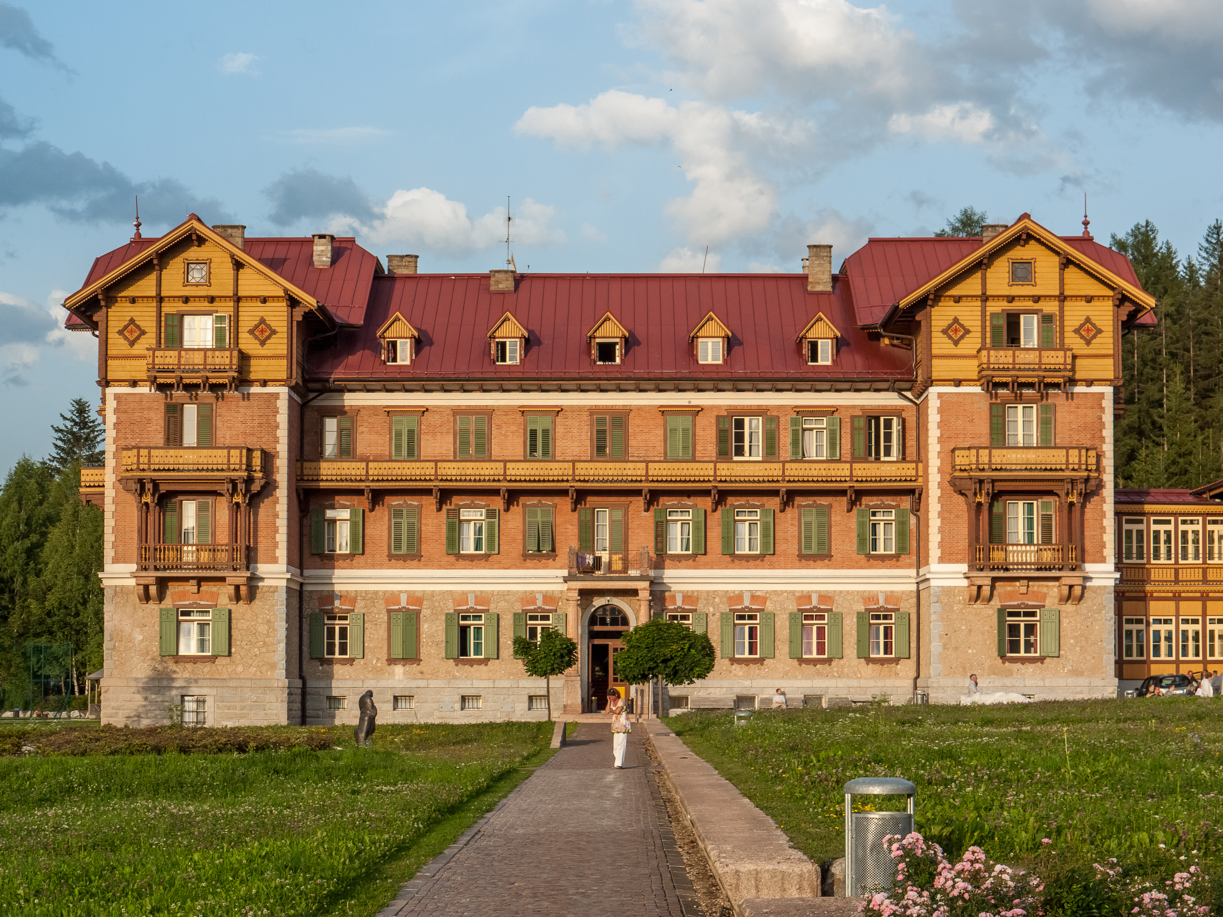 The Grandhotel in Toblach (Dobbiaco)